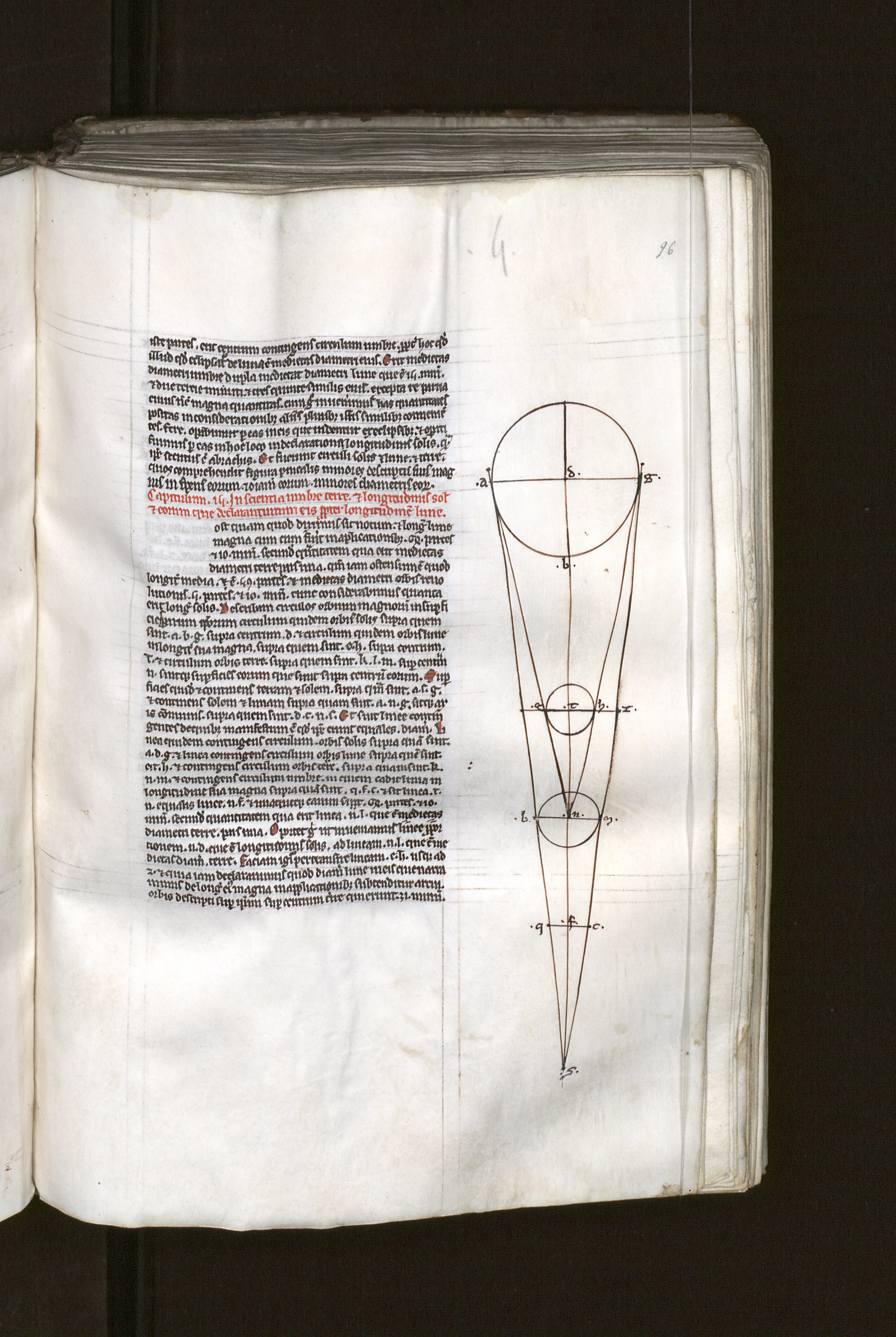 13th-century manuscript from the cistercian abbey of Ter Doest (Flanders)